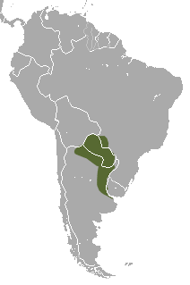 Chacoan Gracile Opossum (Cryptonanus chacoensis) range IUCN: Cryptonanus chacoensis (Tate, 1931) (old web site) (Least Concern)